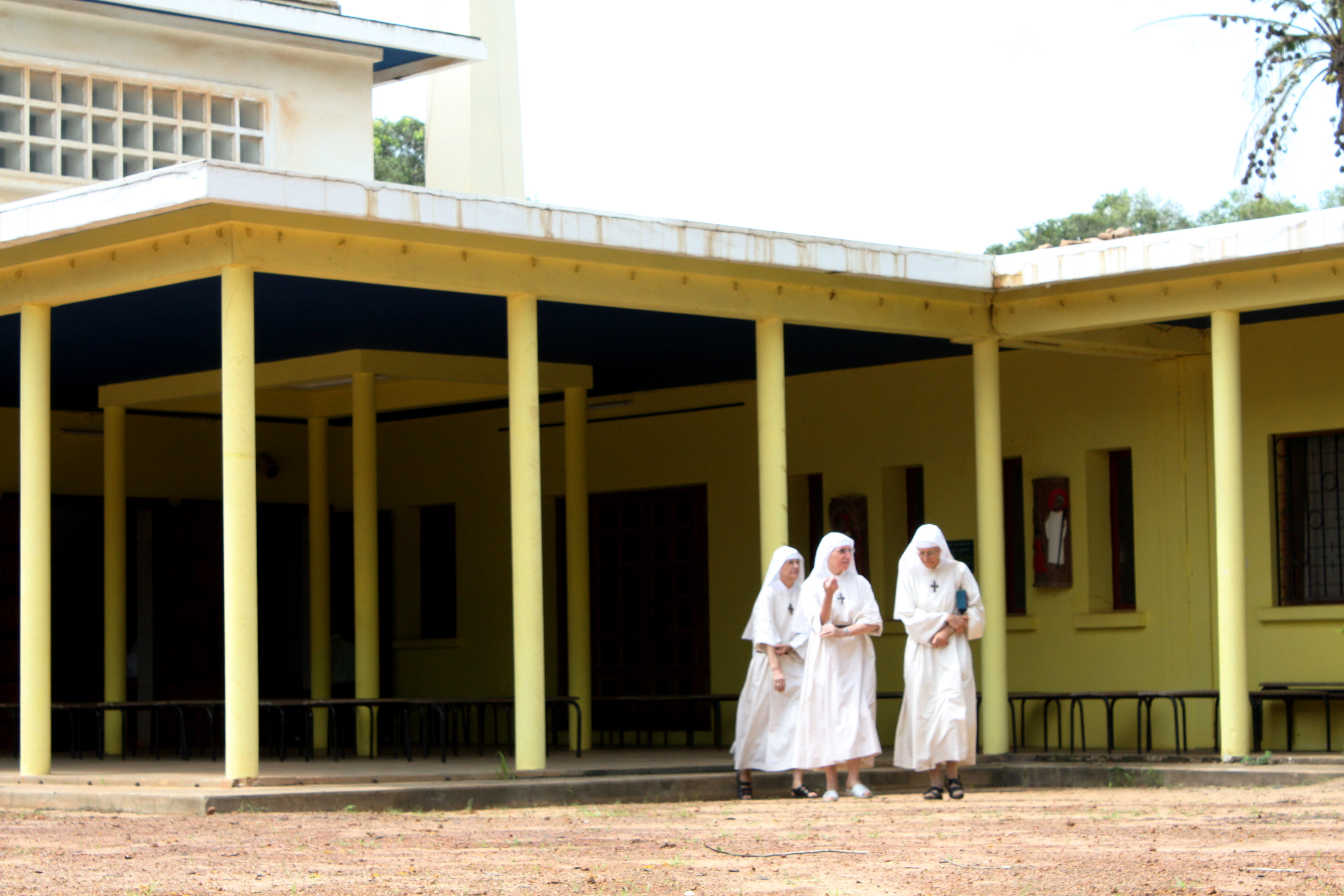 Benedictine nuns at Keur Moussa Abbey (Senegal)